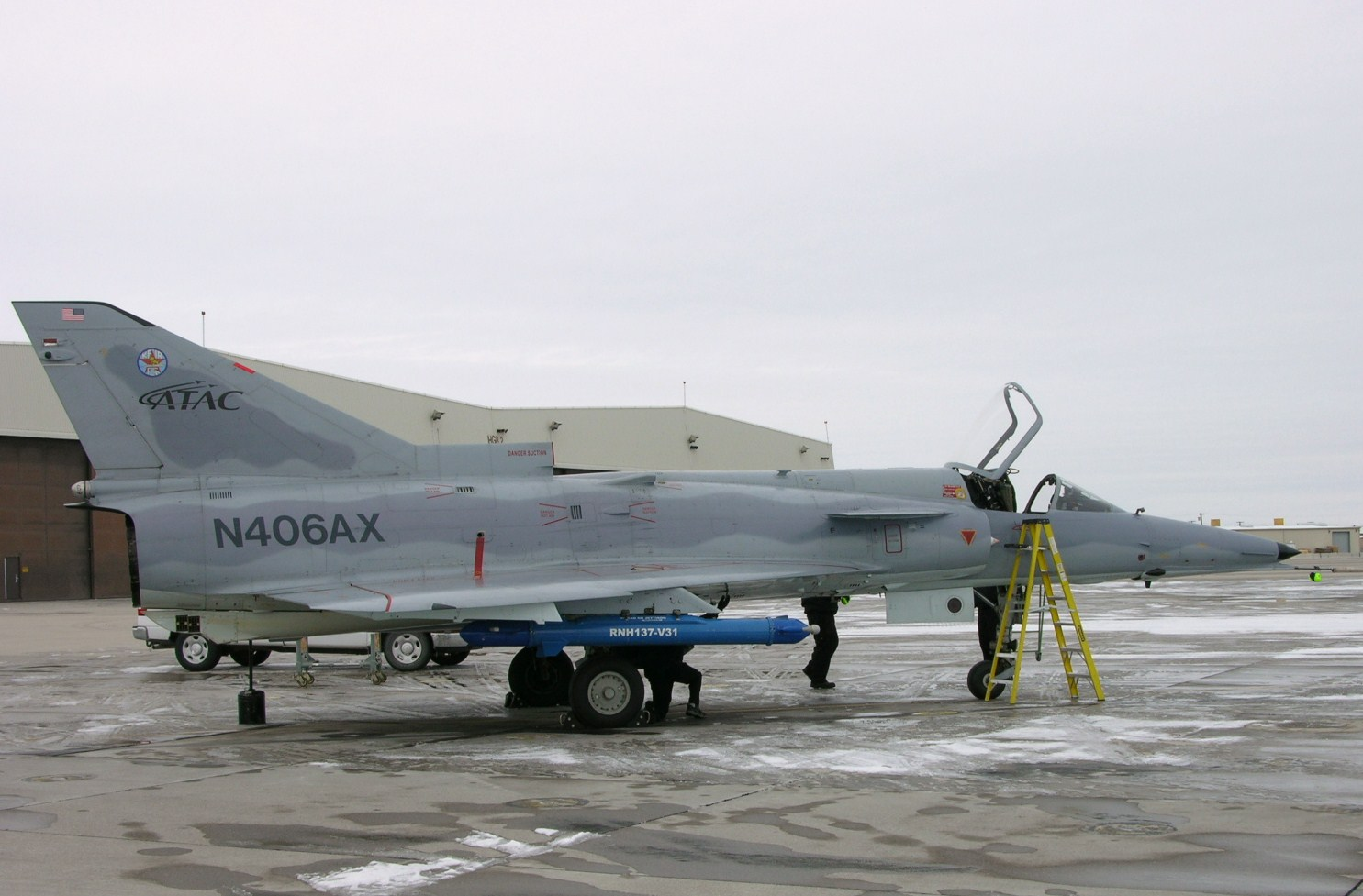 Old Israeli derivative of the French Mirage used as an aggressor for air to air training by ATAC (Airborne Tactical Advantage Company).